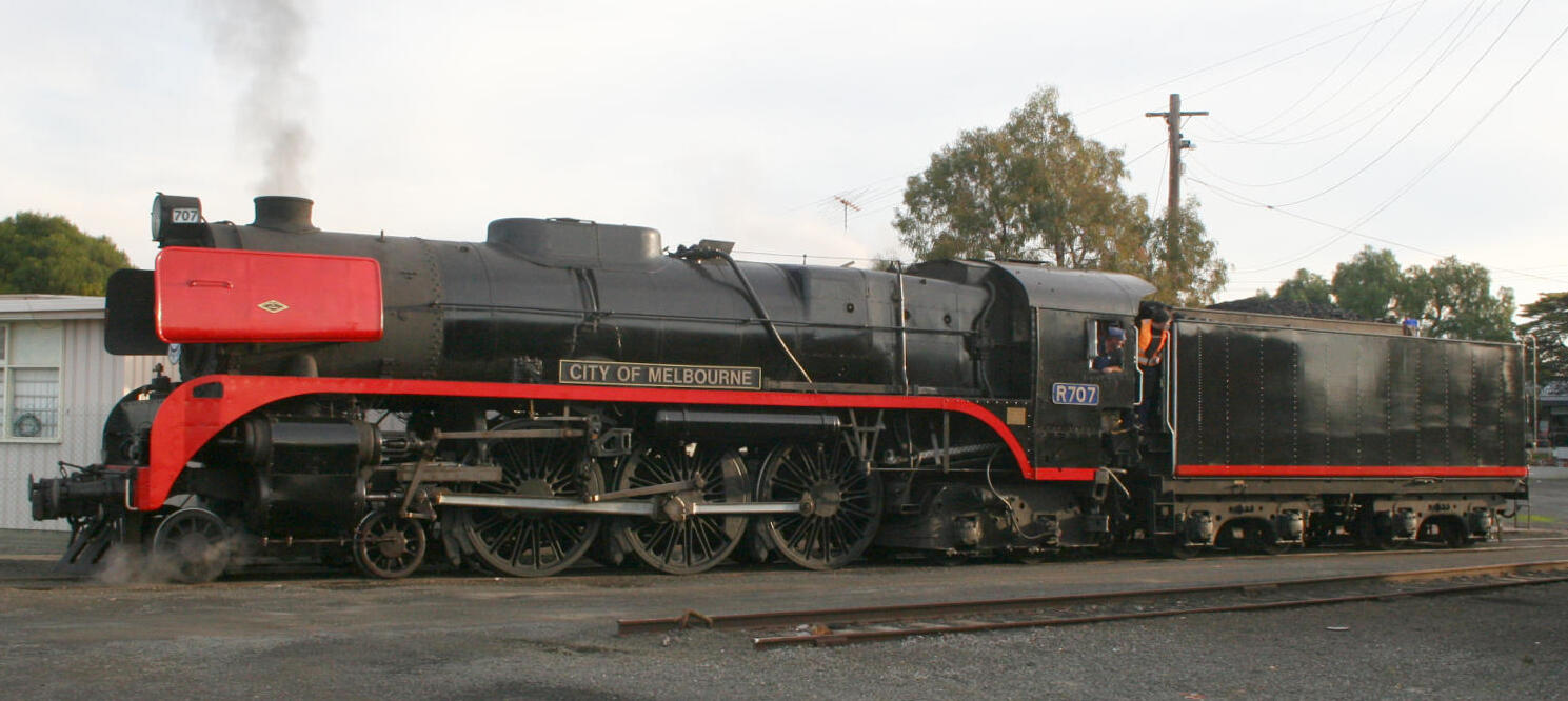 R class locomotive R707 in Geelong, Victoria, Australia